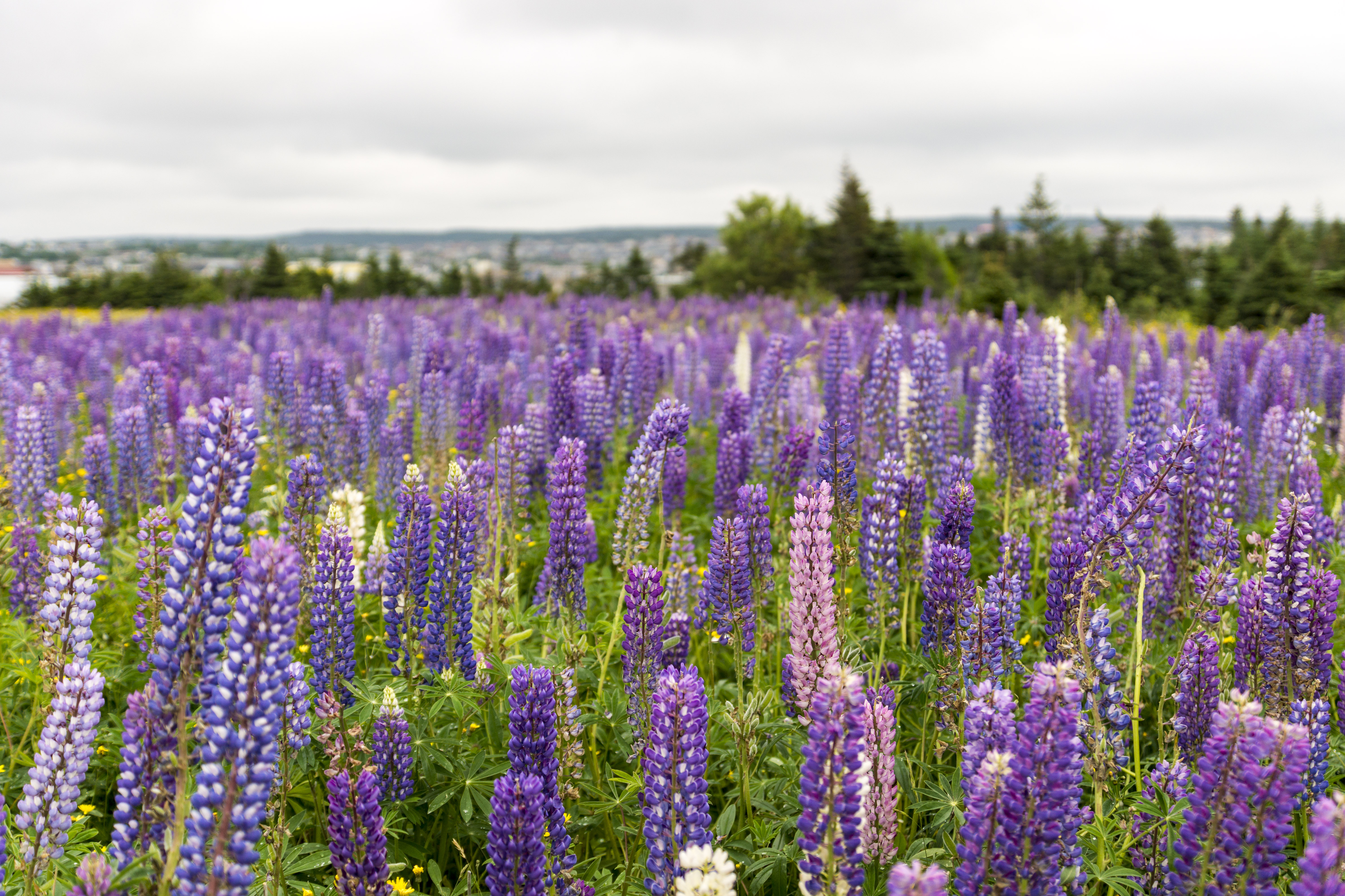 A field of lupines.